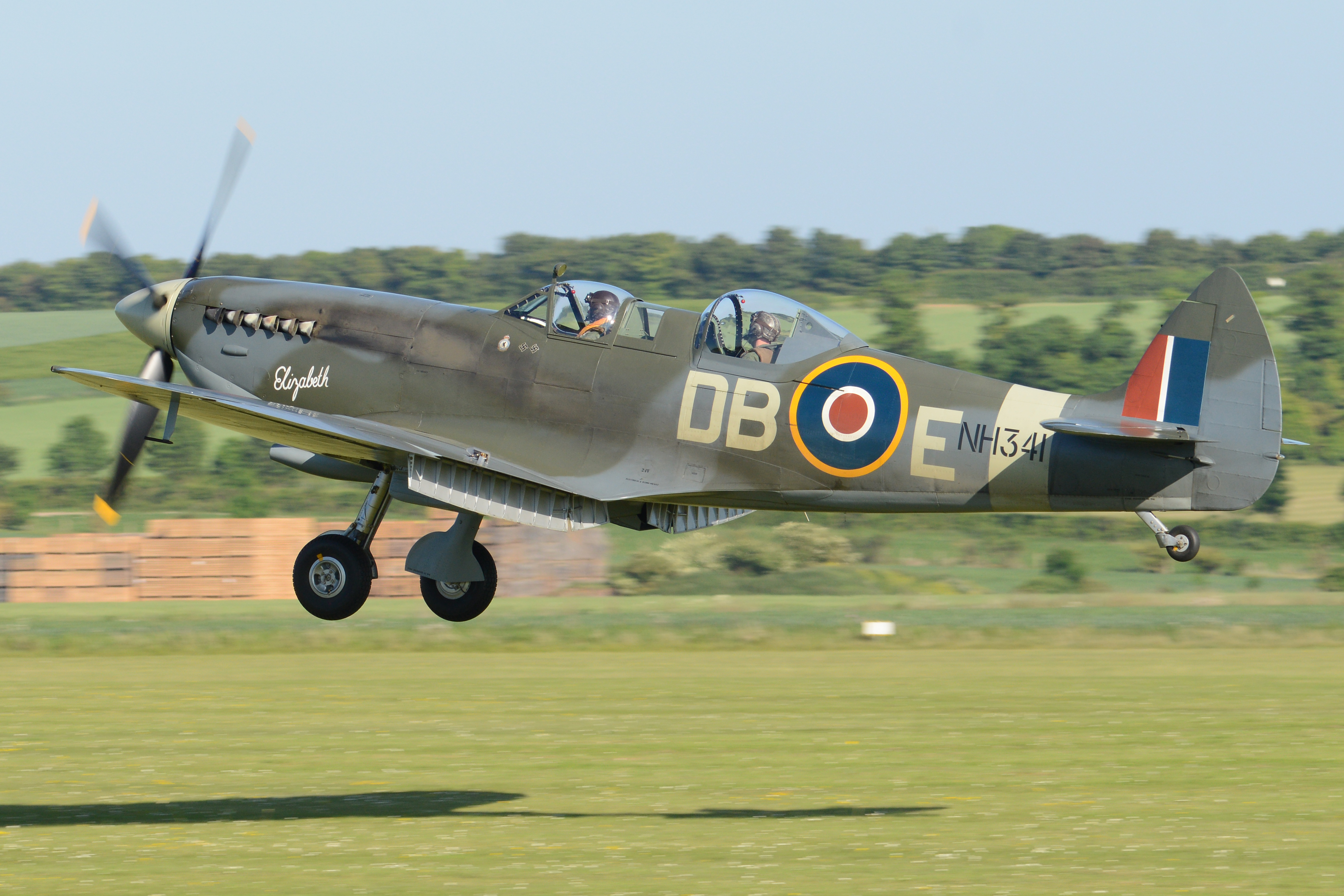 c/n CBAF.8912. As of early 2017 this was the latest addition to the ranks of airworthy Spits. Built as an LF.IXe, she was shot down on 2nd July 1944. The remains were salvaged and displayed in at least two European museums before a complete restoration began in 2011 following purchase in the UK. It was decided to rebuild her as a two-seat T.9, and the completed aircraft, named 'Elizabeth' flew again in the Spring of 2017. She is seen landing at the Imperial War Museum, Duxford, Cambridgeshire, UK. 26th May 2017